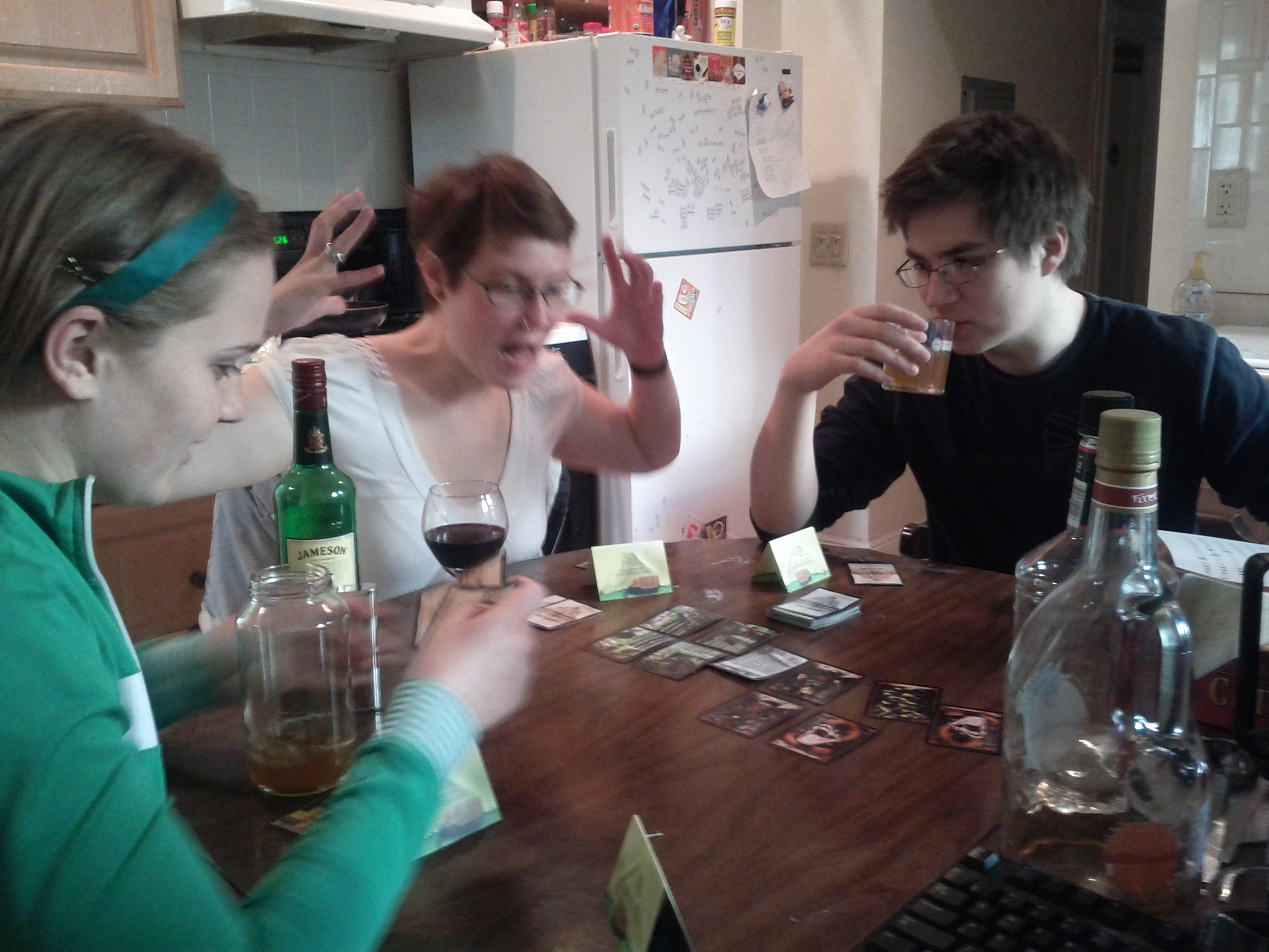 A group of adventurers playing Incan Gold